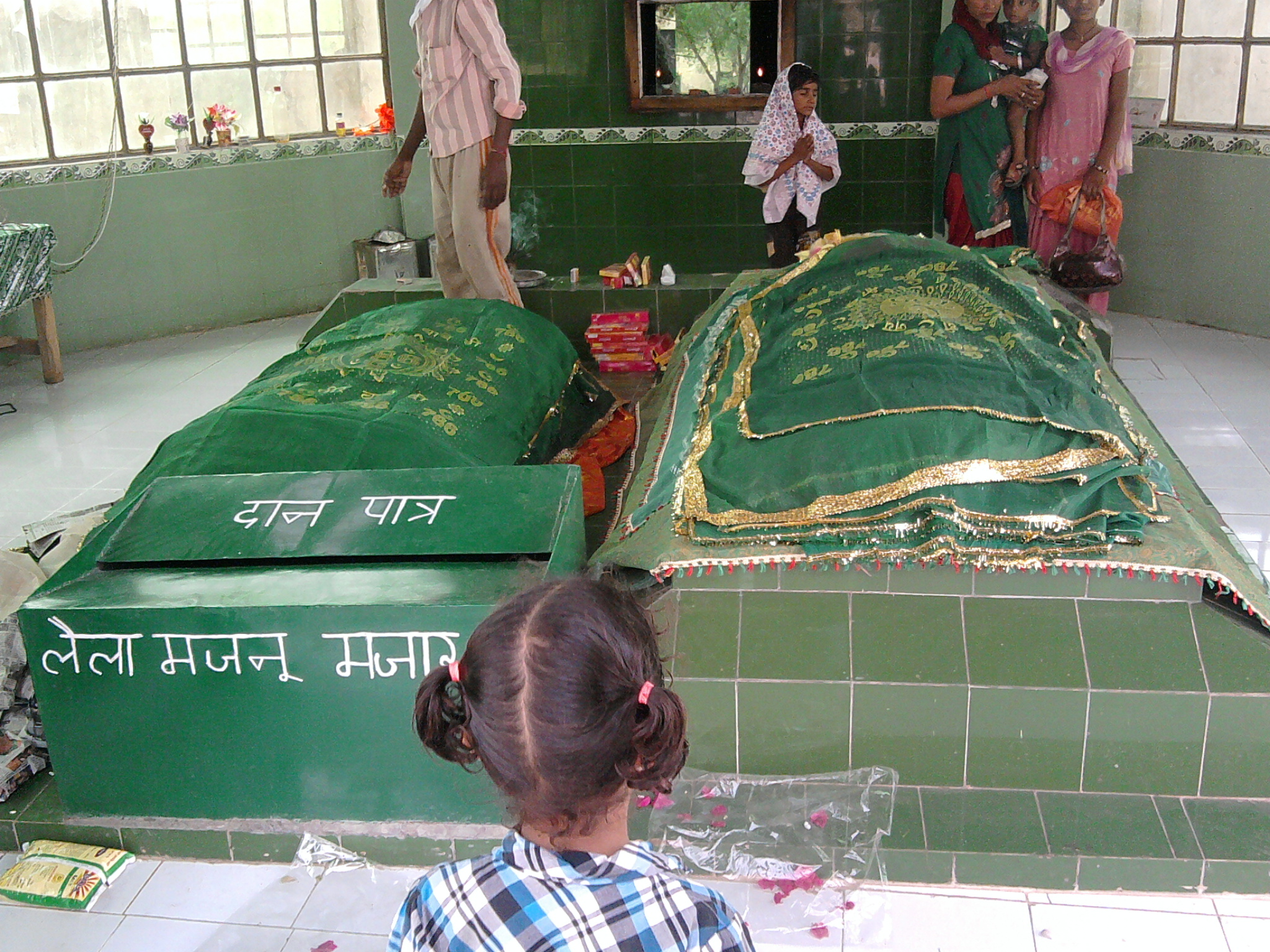 I,Sivender Singh(Shemaroo) have taken this photo with my phonecamera.This photo is taken inside the socalled Laila Majanun Mazar at 6MSR(Binjaur) near Anupgarh city of India.